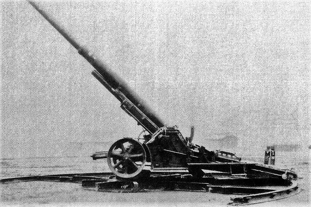 Type 96 15-cm-Cannon of the Imperial Japanese Army